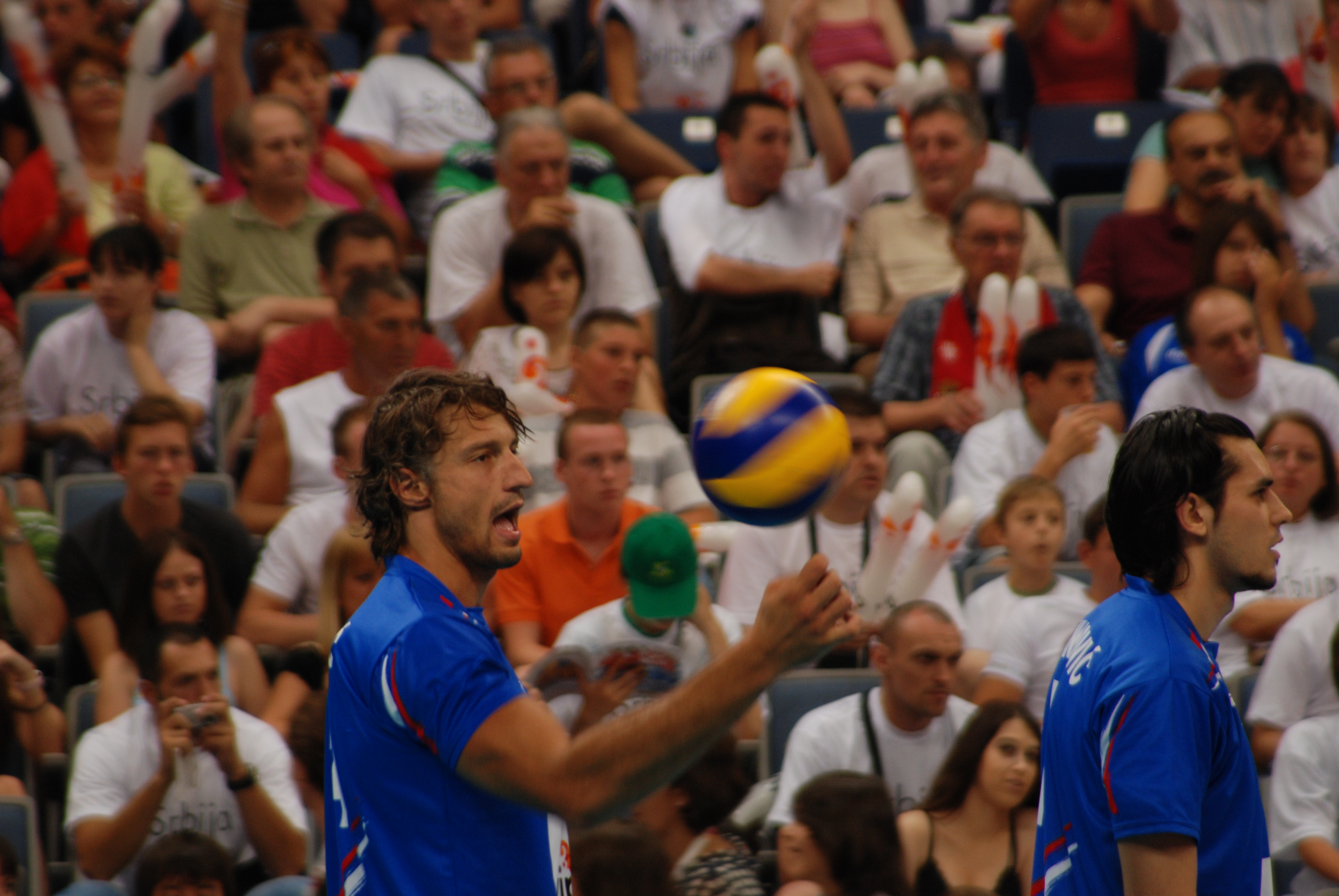 A prestigious match between two great opponents, Serbia and Russia, decided first place in Pool E with both teams already secure in the knowledge that they had obtained berths in the 2009 World League semifinals. Serbia beat Russia 3-1 (25-23, 25-23, 23-25, 25-21) to finish first the Pool and set up a meeting with Cuba, while Russia will have the daunting task of playing Brazil for a shot at reaching the final.